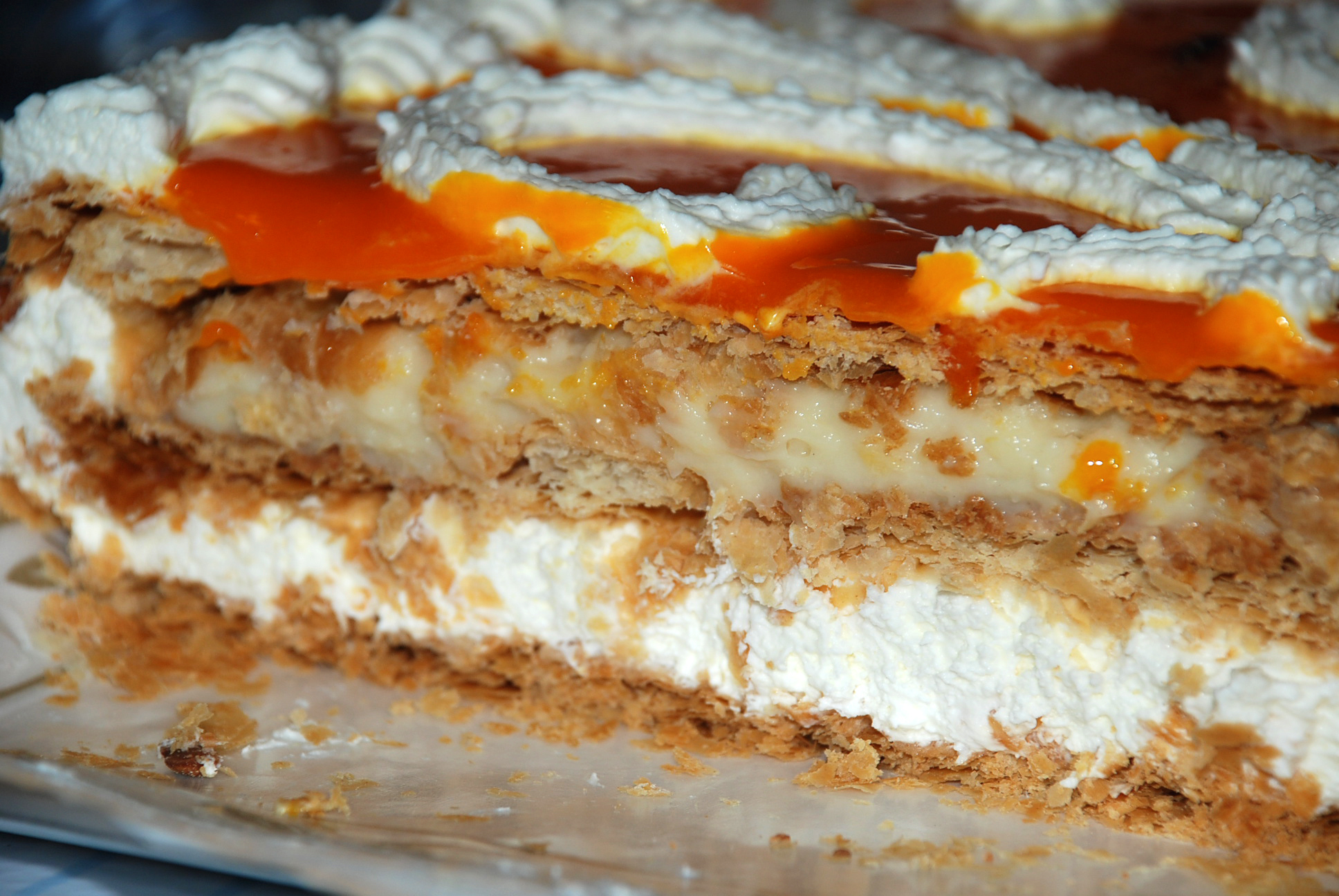 Food in the province of Palencia: cake of puff pastry and yolk brewed in "La perla Alcazareña", Villalcázar de Sirga (Palencia, Castille and León).